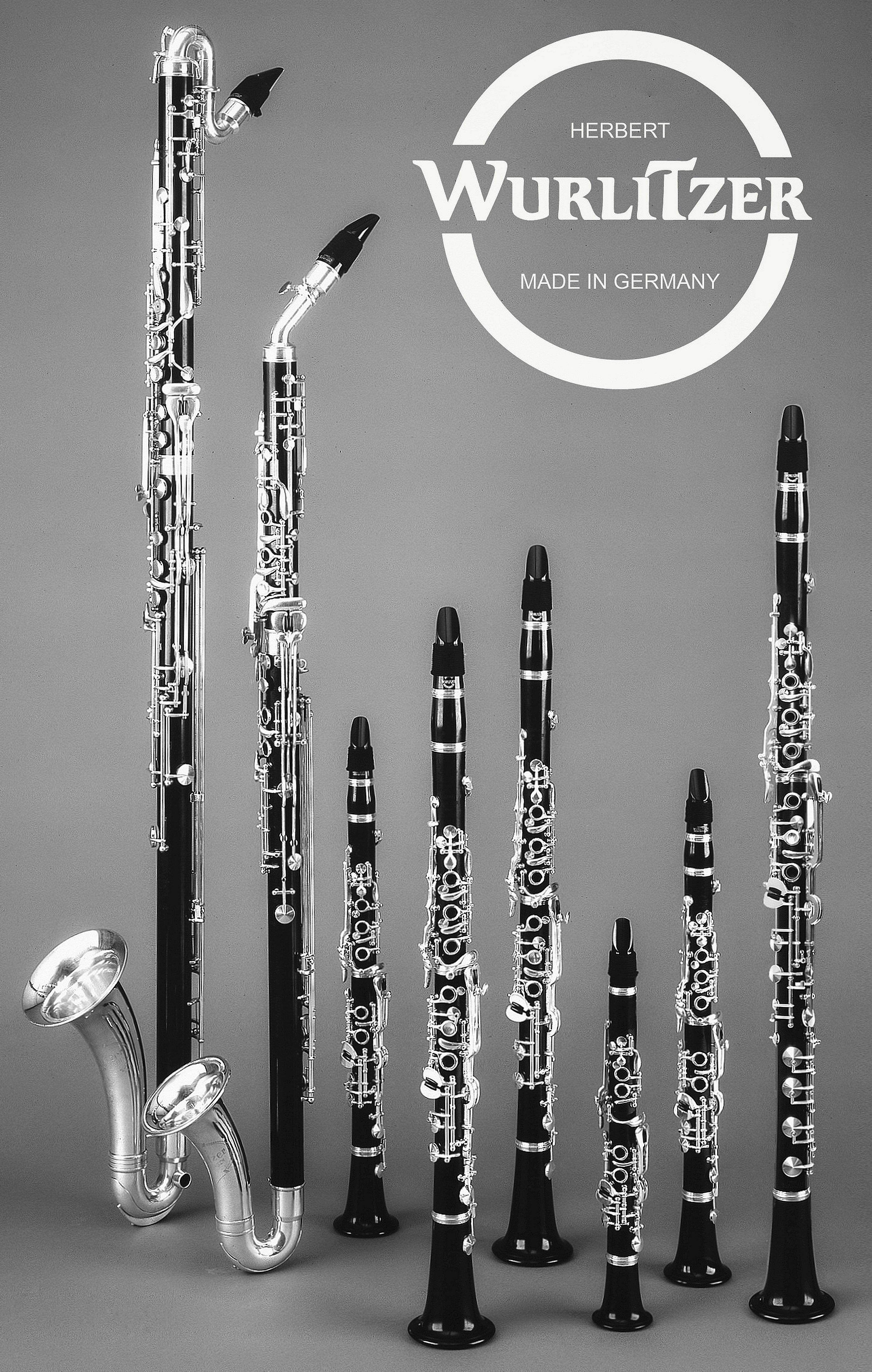 Bass clarinet, basset horn, clarinets in C, B♭, A, E♭ and D